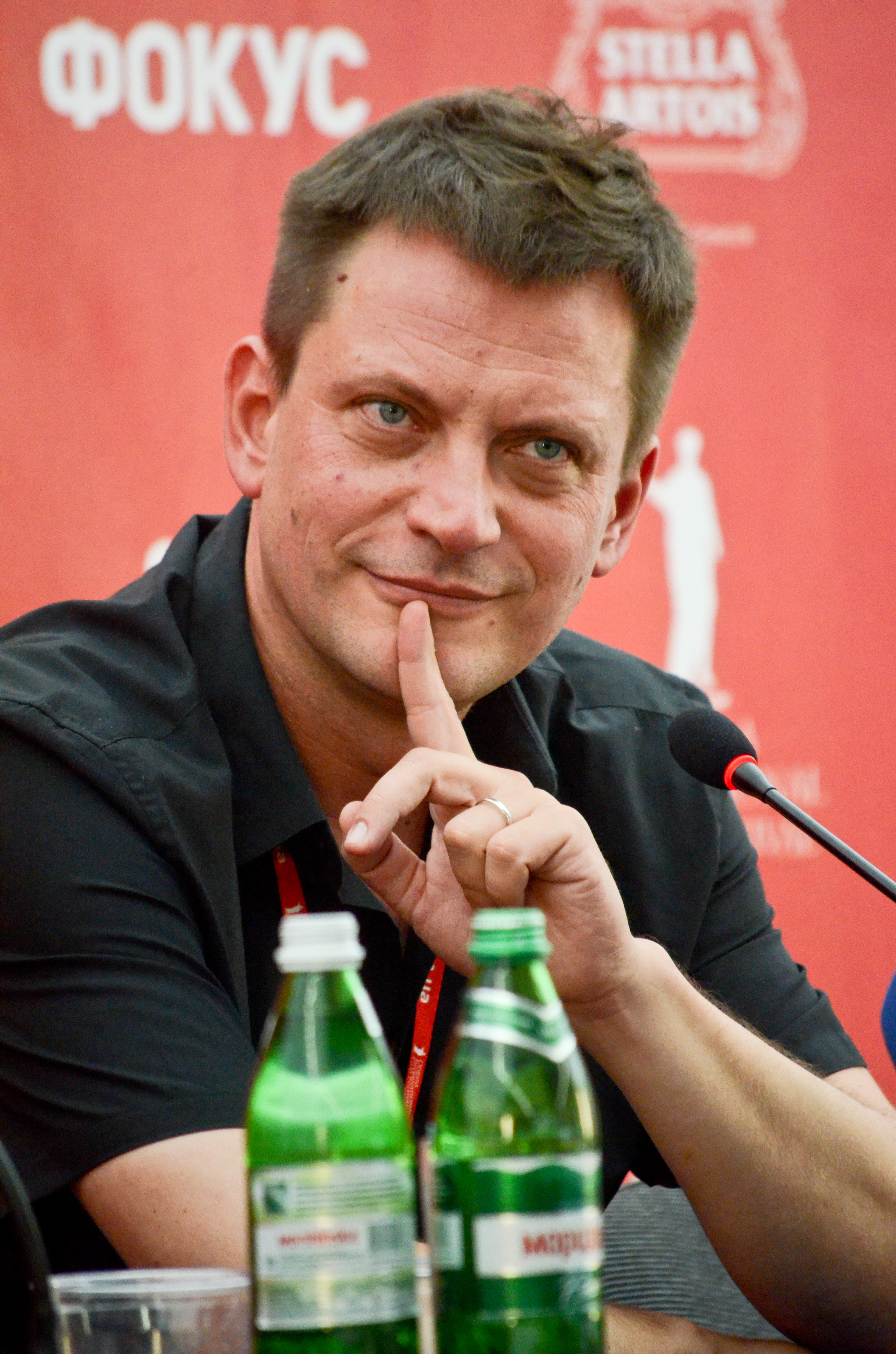 Croatian screenwriter and film director Dalibor Matanić at the 6th Odessa International Film Festival.